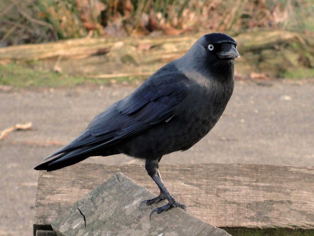 A Western Jackdaw (also known as the Eurasian Jackdaw, European Jackdaw, or locally Jackdaw) at Bushy Park, Richmond upon Thames, London.